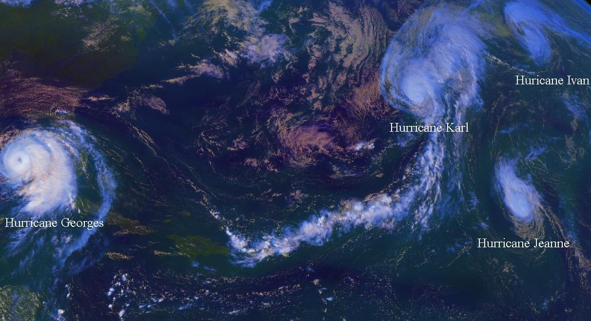 This image shows four Atlantic hurricanes simultaneously occurring during the 1998 Atlantic hurricane season. The hurricanes were designated as Georges, Ivan, Karl, and Jeanne. The image is modified using GIMP to show the names of the four hurricanes.